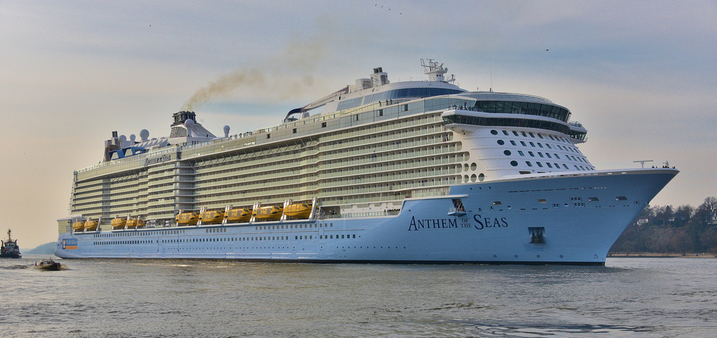 MS Anthem of the Seas